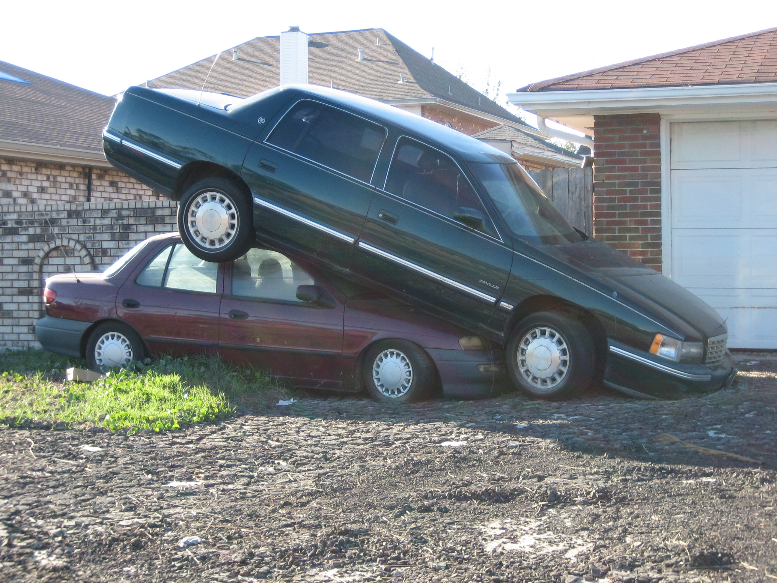 Chalmette, Louisiana: automobiles tossed by Hurricane Katrina storm surge. Note silt deposits on ground. Photo by Infrogmation of New Orleans, 17 November 2005.